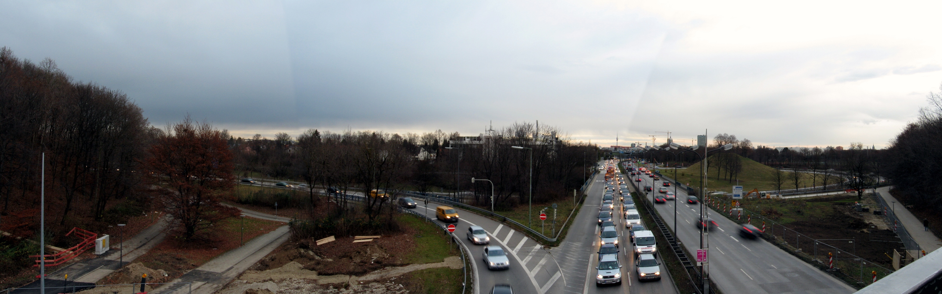 Panoramic of the Garmischer Straße (Munich, Bavarian, Germany) an the end of the motorway A 96 (view from the Westparkbrücke northwards)